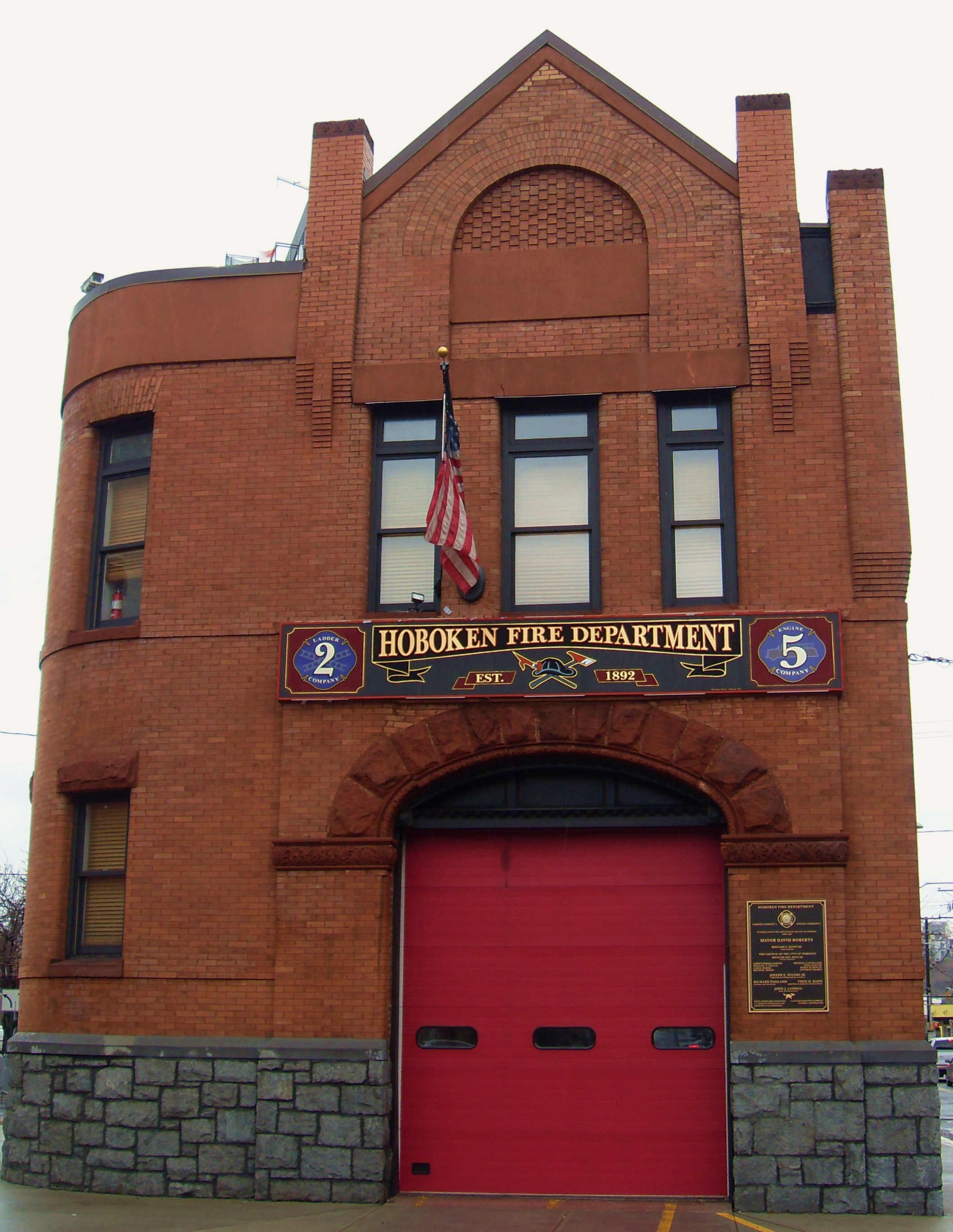 To be used in article Engine House No. 3, Truck No. 2